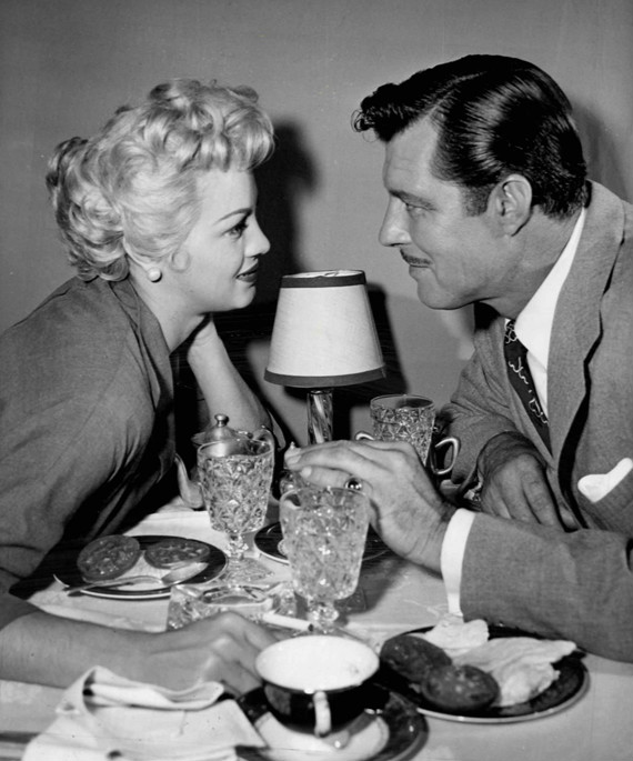 Photo of Angie Dickenson and James Craig from the television program The Millionaire.